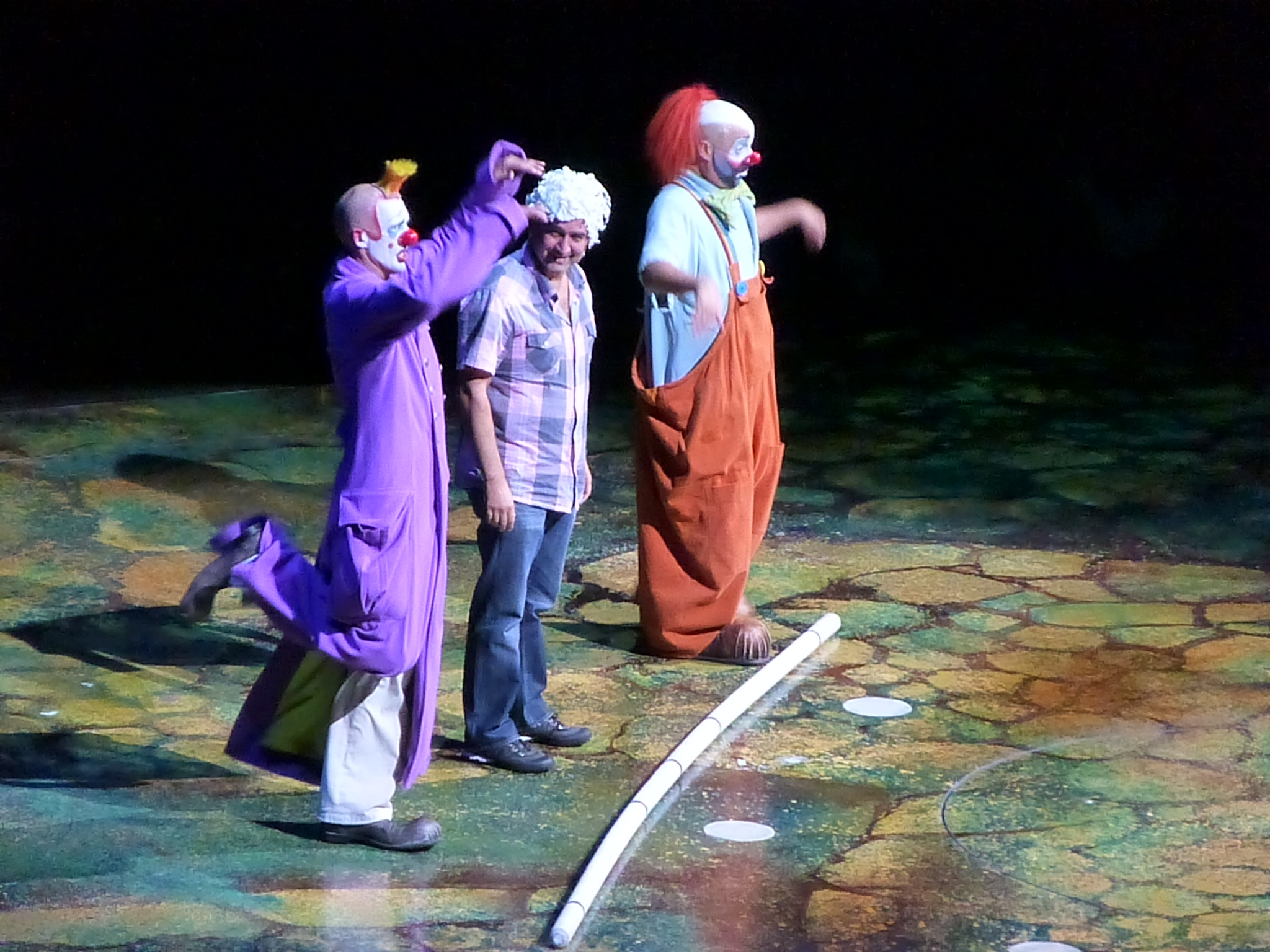 Cirque du Soleil 2012 Alegría, Istanbul, Turkey